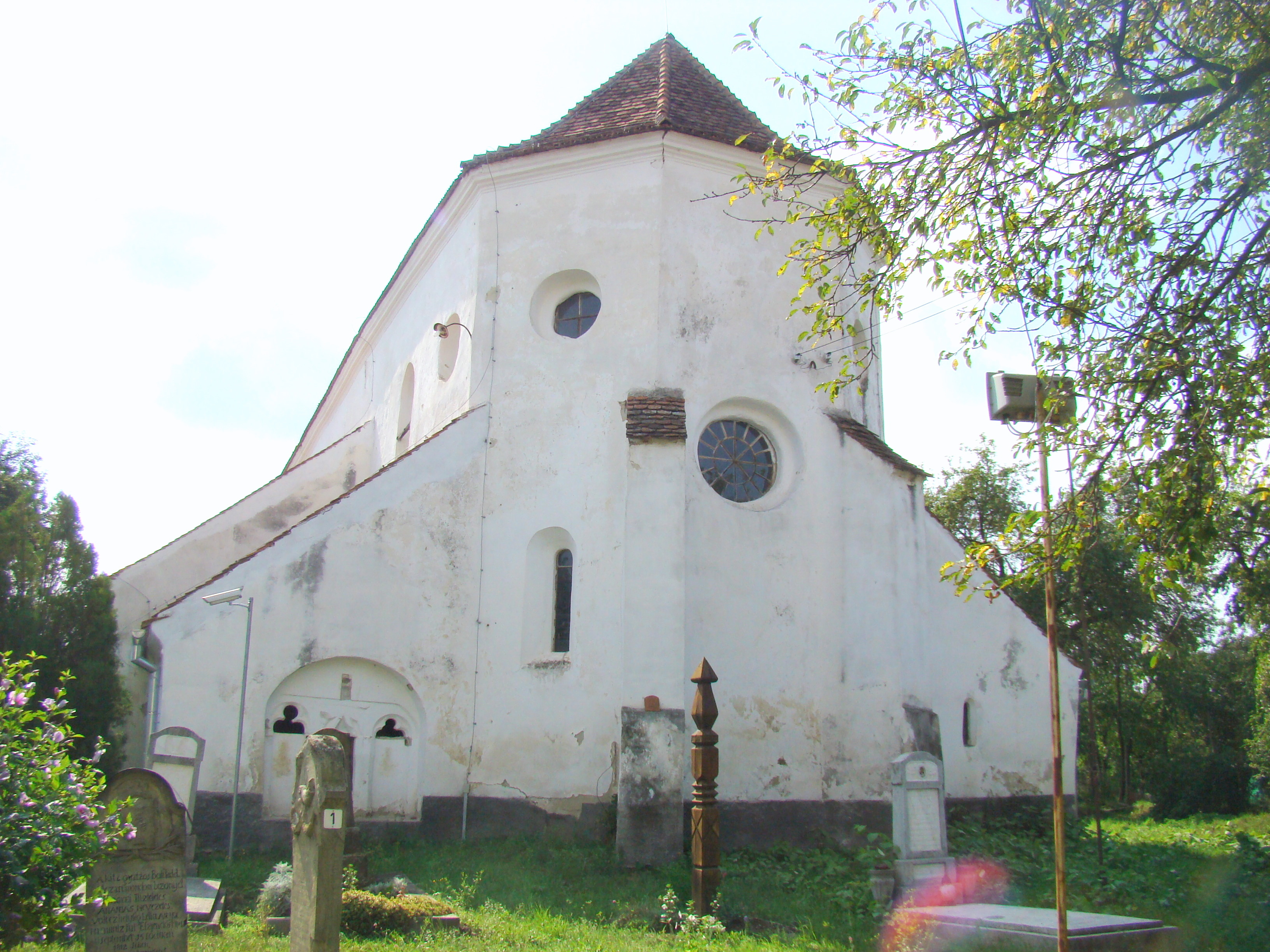 Lutheran church in Hălmeag, Brașov County, Romania